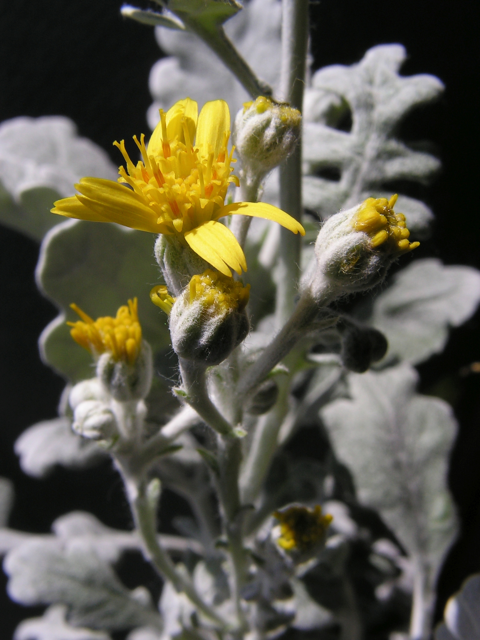 Inflorescences of Silver Ragwort. Diameter of the biggest inflorescence is 14 mm.